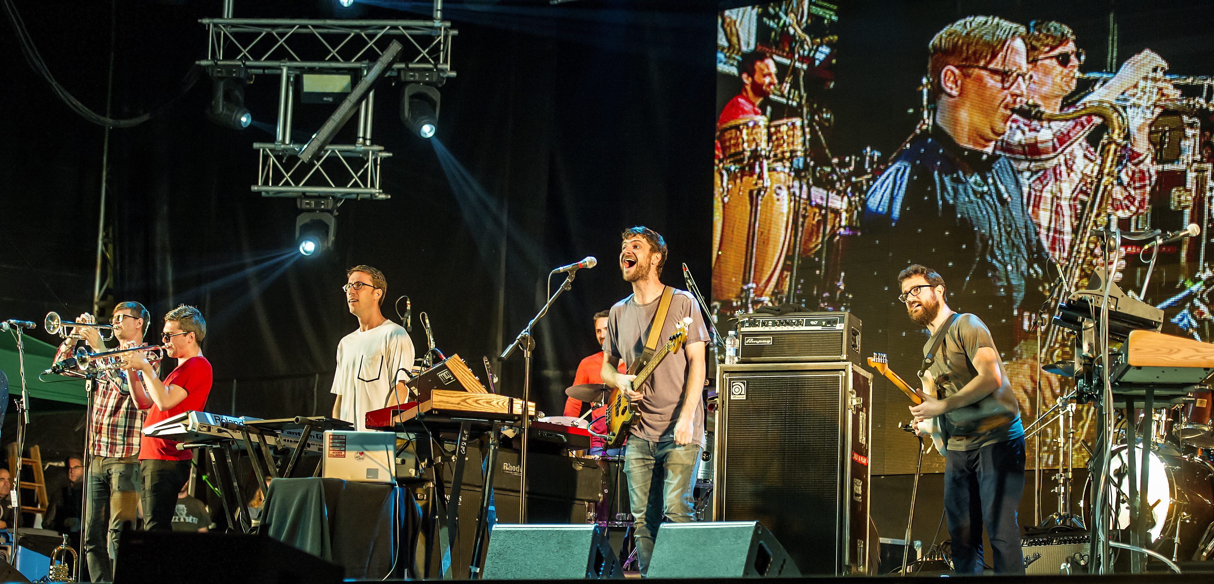 Snarky Puppy at the 51st Heineken Jazzaldia, Basque Country, 2016: Michael League (bass), Larnell Lewis (drums), Marcelo Woloski (percussion), Bob Lanzetti (guitar), Bill Laurance (keyboards), Shaun Martin (keyboards, talkbox), Justin Stanton (trumpet, keyboards), Mike Maher (trumpet, flugelhorn), Chris Bullock (sax, flute)